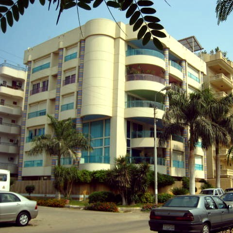 Colorful....isn't it?